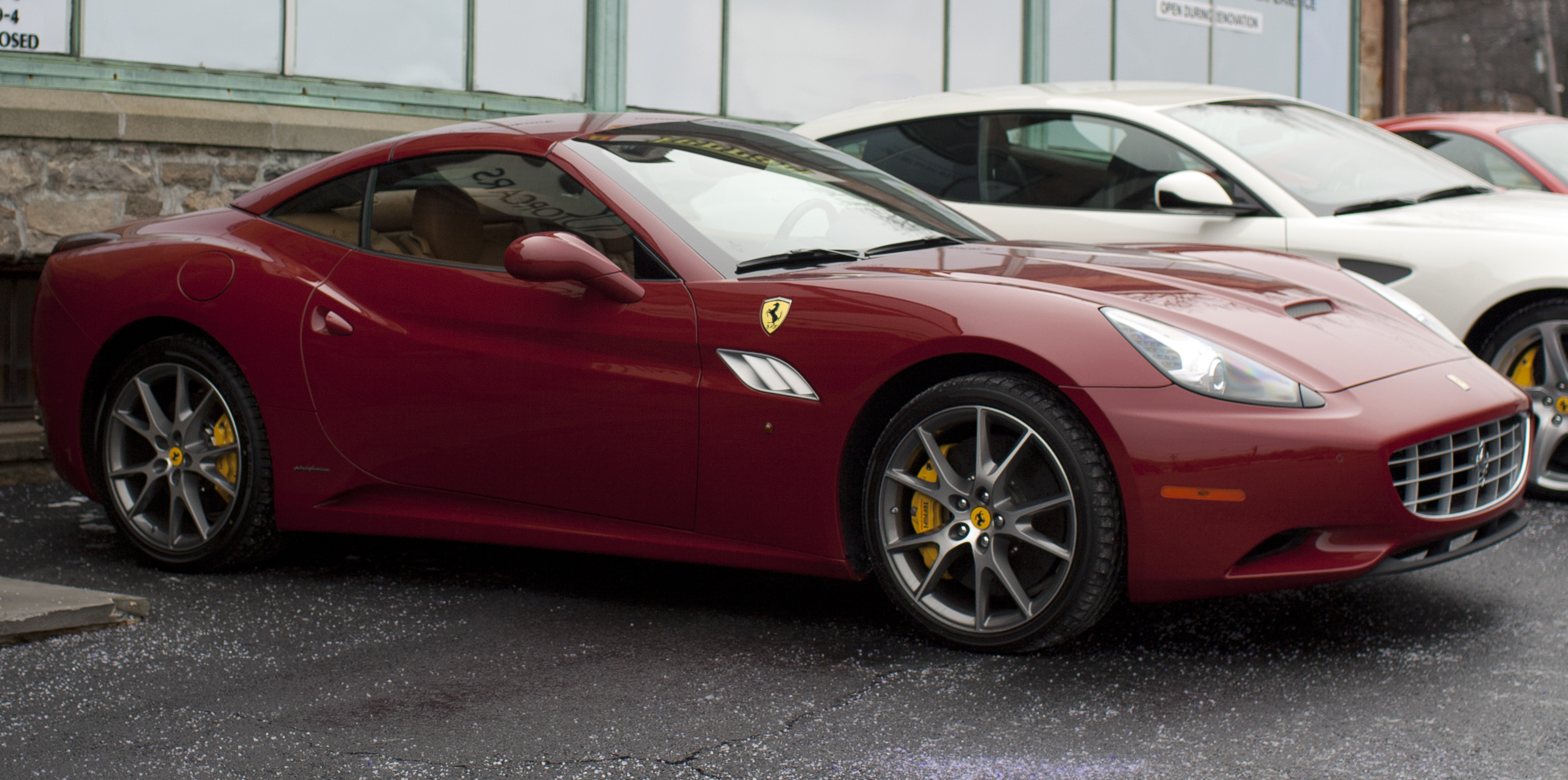 2013 Ferrari California HS at a dealership in Greenwich CT. The HS can be recognized by a silver grille and trim on the sides.